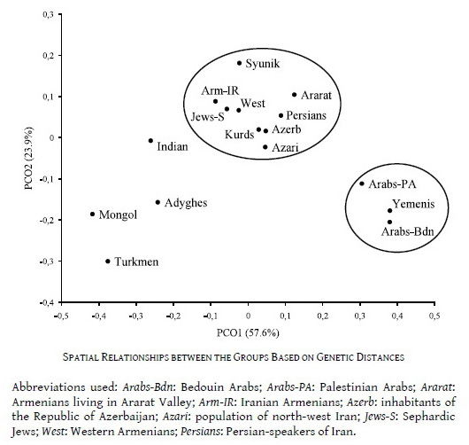 A figure showing relationship of ethnic groups of Iran and surrounding countries , based on the study of Levon Yepiskoposian, Аshot Margarian,Laris Andonian, Vahid Rashidvash , Institute of Molecular Biology, National Academy of Sciences, Yerevan,Tehran University of Medical Sciences,Yerevan State University.2011